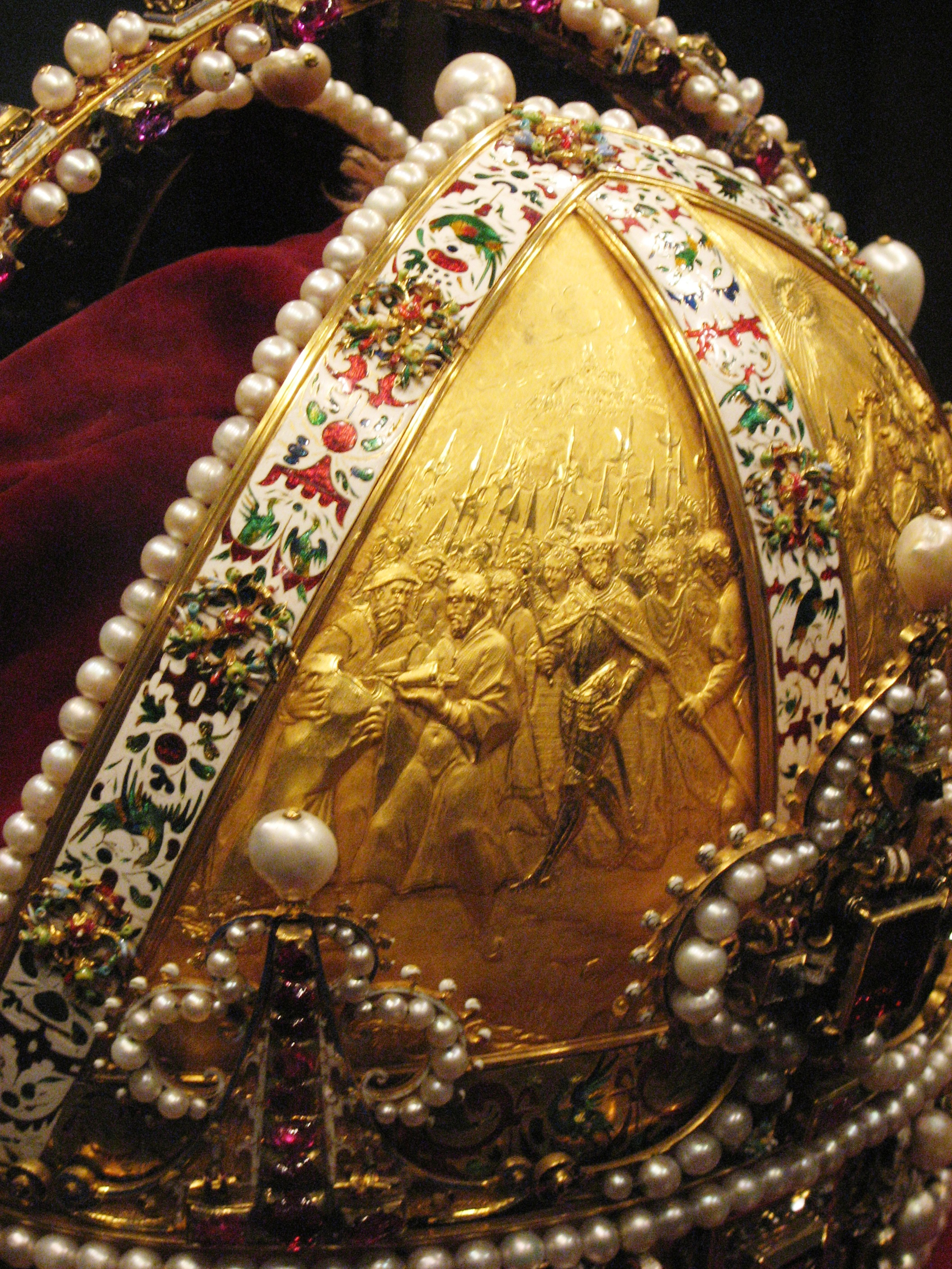 Coronation procession of Rudolf II after his coronation as King of Bohemia in Prague. The Crown of Rudolf II, later Crown of the Austrian Empire Jan Vermeyen Prague, 1602 Gold, partially enamelled, diamonds, rubies, spinel rubies, sapphire, pearls, velvet H 28.3 cm, circlet 22.4 cm in diameter (with pearls), largest span (over the fleurs-de-lis on the brow and neck) 27.8 cm SK Inv. No. XIa 1